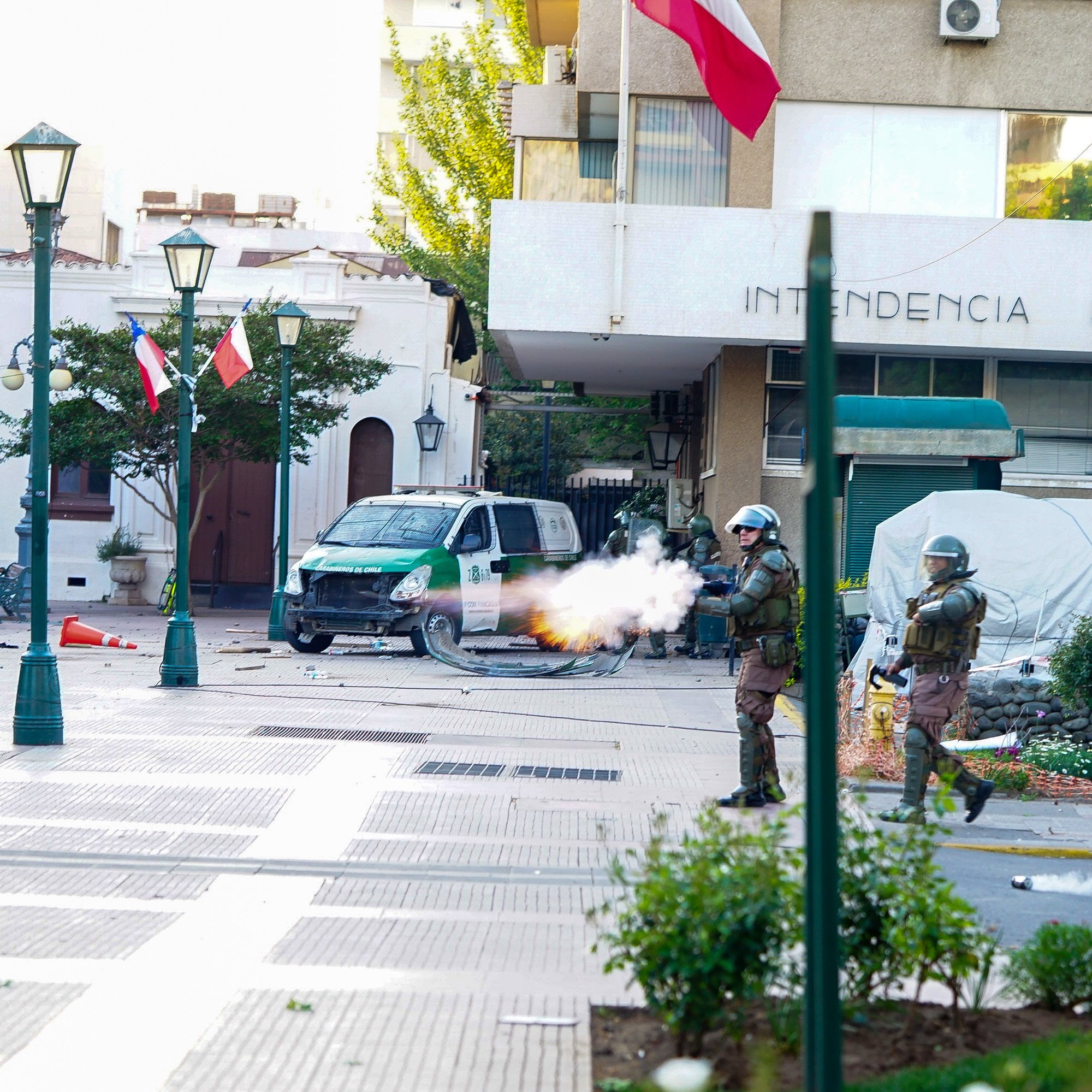 Sunday, october 20th - More than 20 thousand people gathered at the Plaza de Los Heroes (Heroes Square) at the very center of the city of Rancagua to peacefully demonstrate their will for a deep change of the state politics. This was the first masive march in more than 30 years.